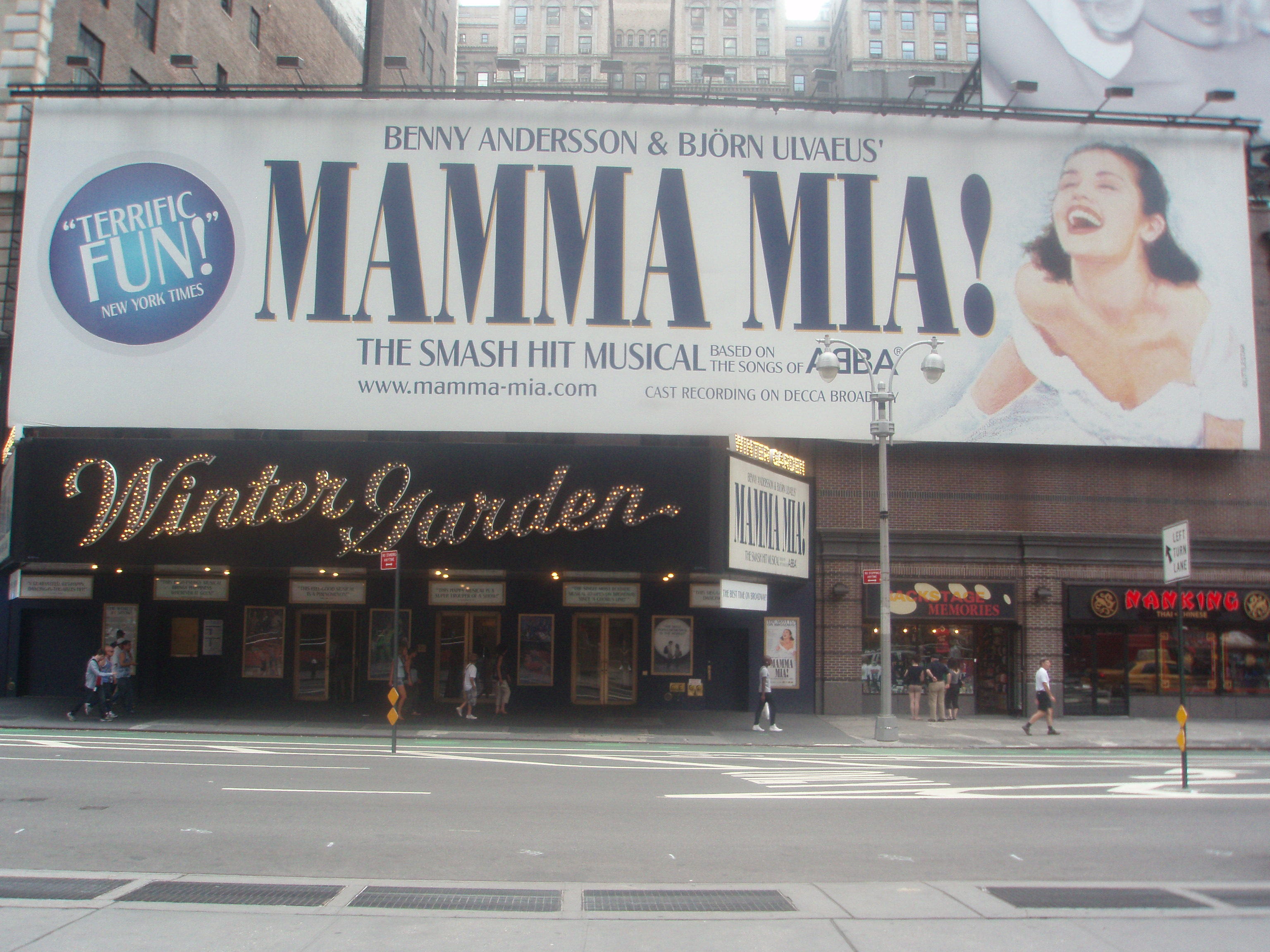 Mamma Mia Musical on Broadway Theater in New York City